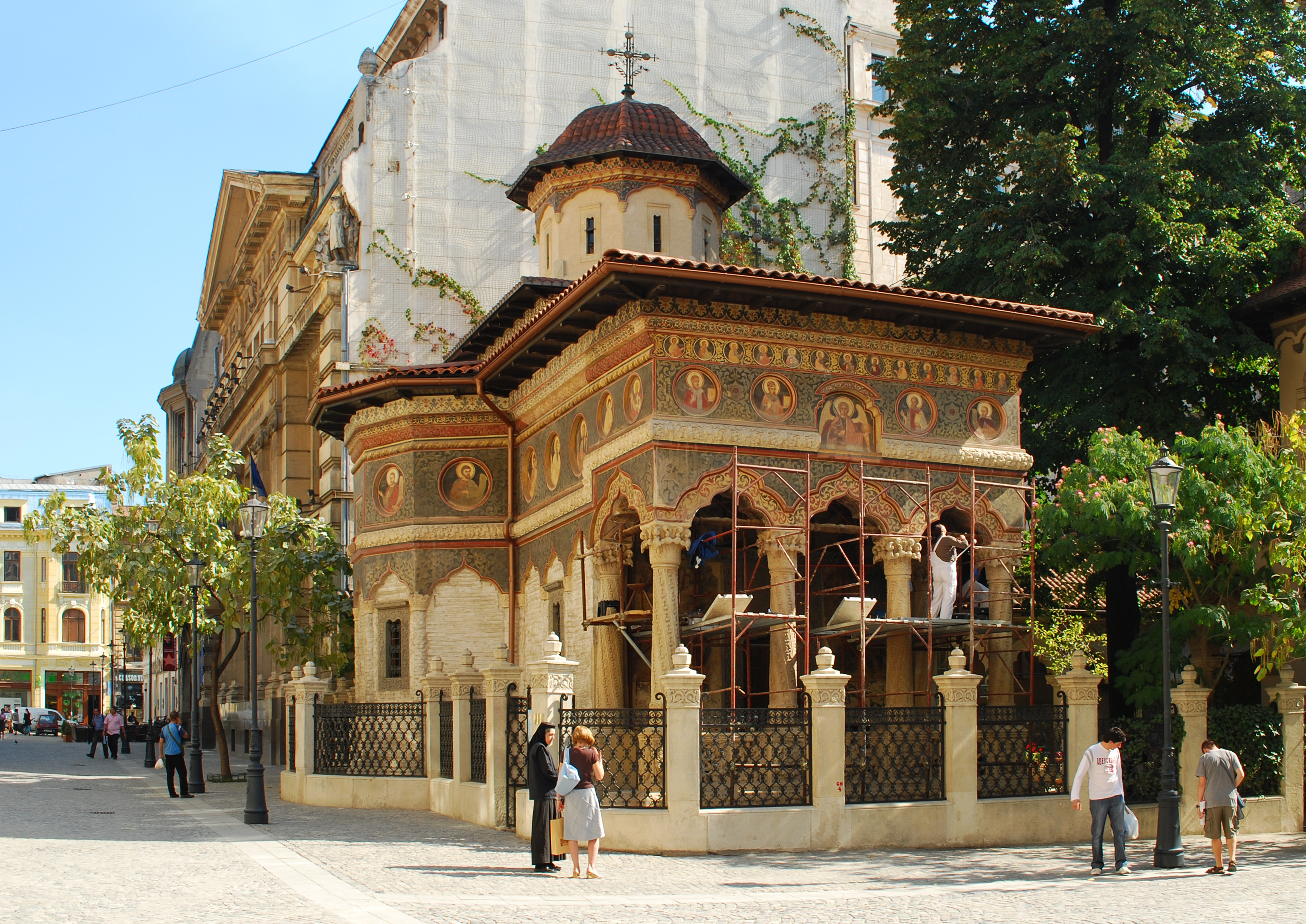 Stavropoleos church in Bucharest, RomaniaRomână: Biserica Stavropoleos din Bucureşti, România 01